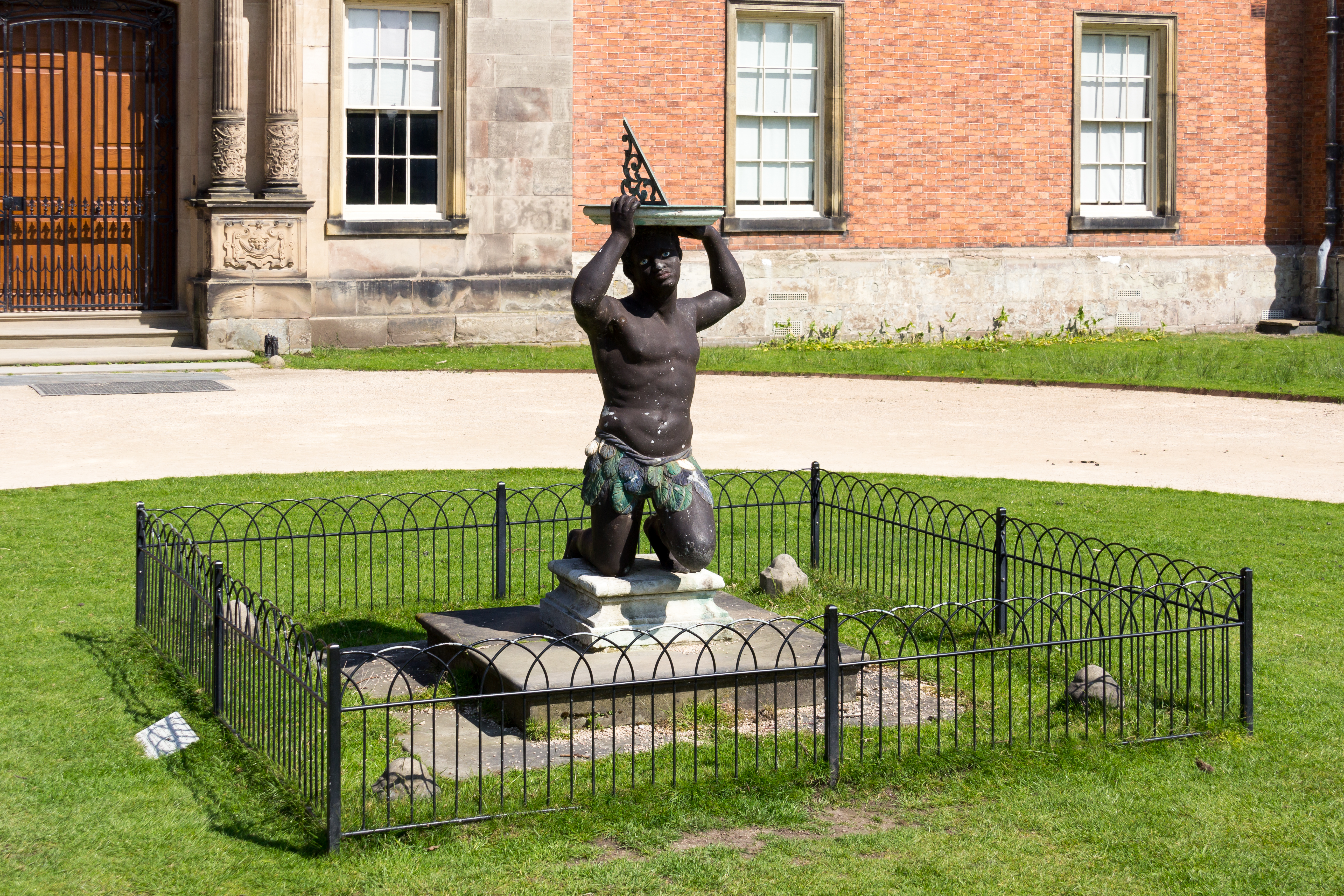 Dunham Massey, Greater Manchester, United Kingdom